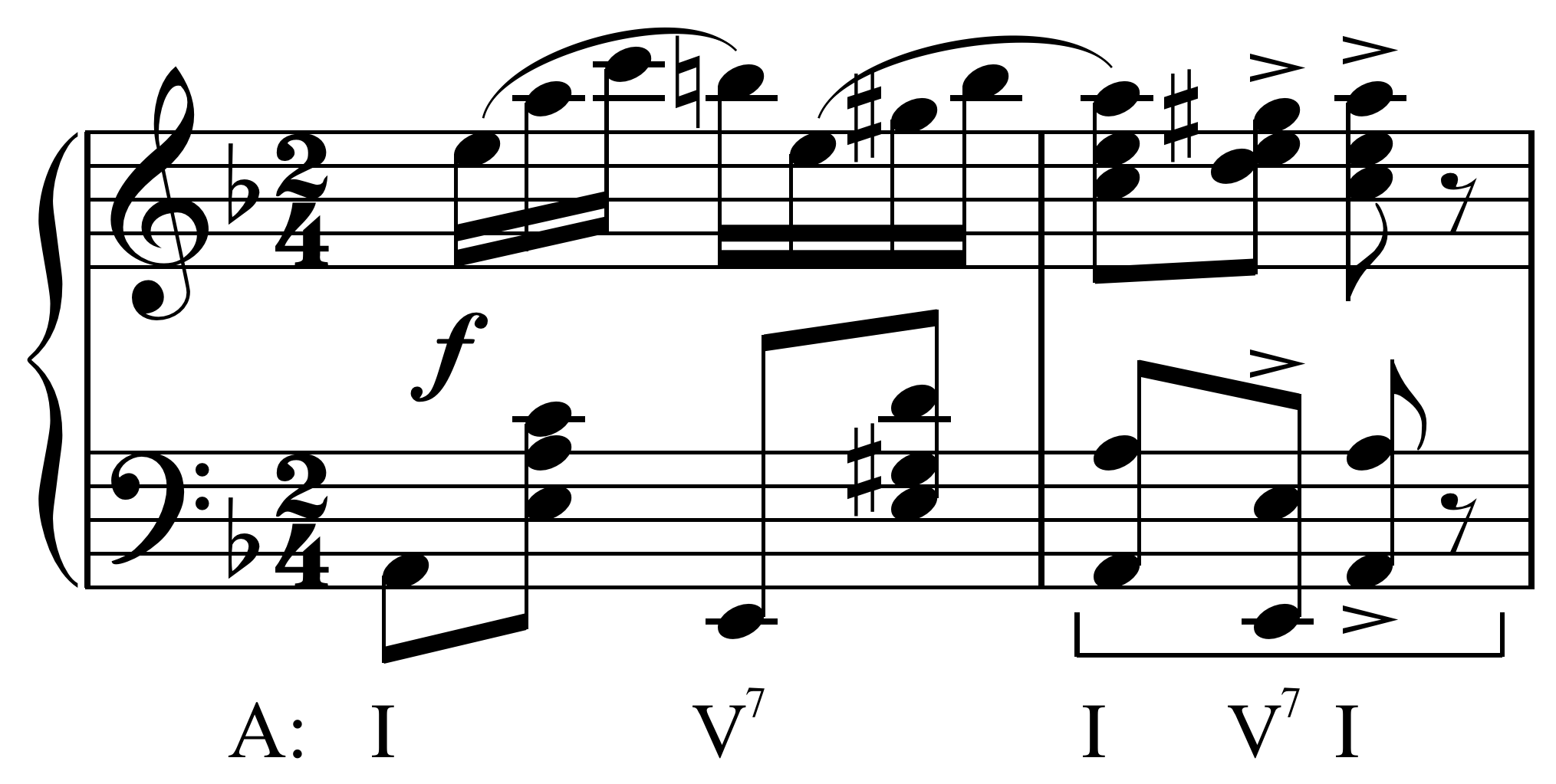 Stop-time in Dan Emmett's "Aunt Dinah's Wedding Dance" (1895) first break down strain